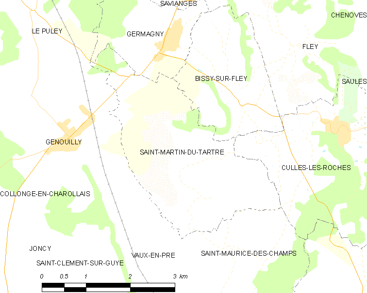 Map of French municipality